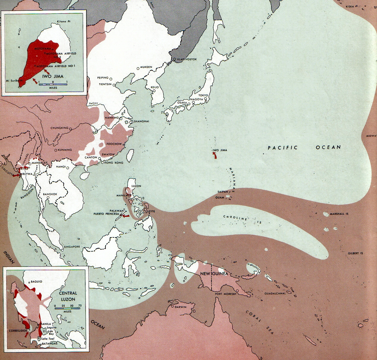 Map of the front against Japan as of 1 Mar 1945: This map is taken from the source "Atlas of the World Battle Fronts in Semimonthly Phases to August 15th 1945: Supplement to The Biennial report of The Chief of Staff of the United States Army July 1, 1943 to June 30 1945 To the Secretary of War". (See Cover, Forward and Map details)